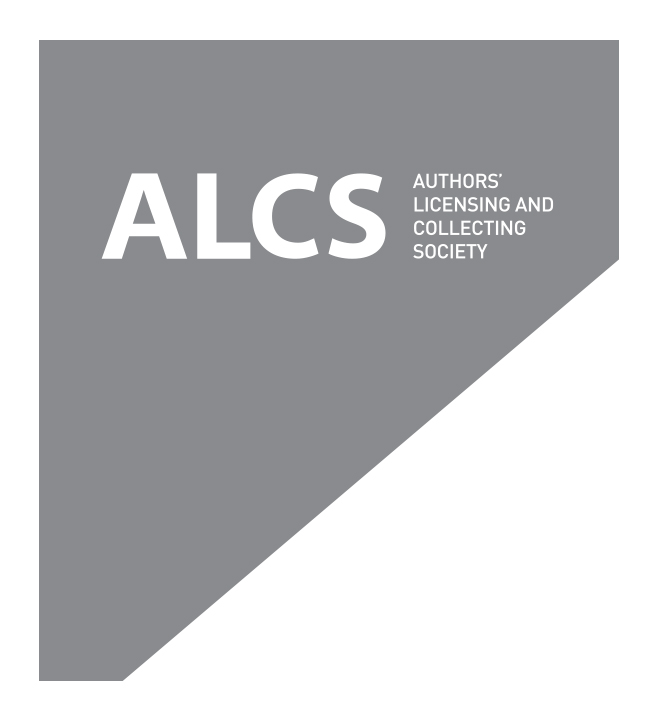 The ALCS updated logo as of March 2016